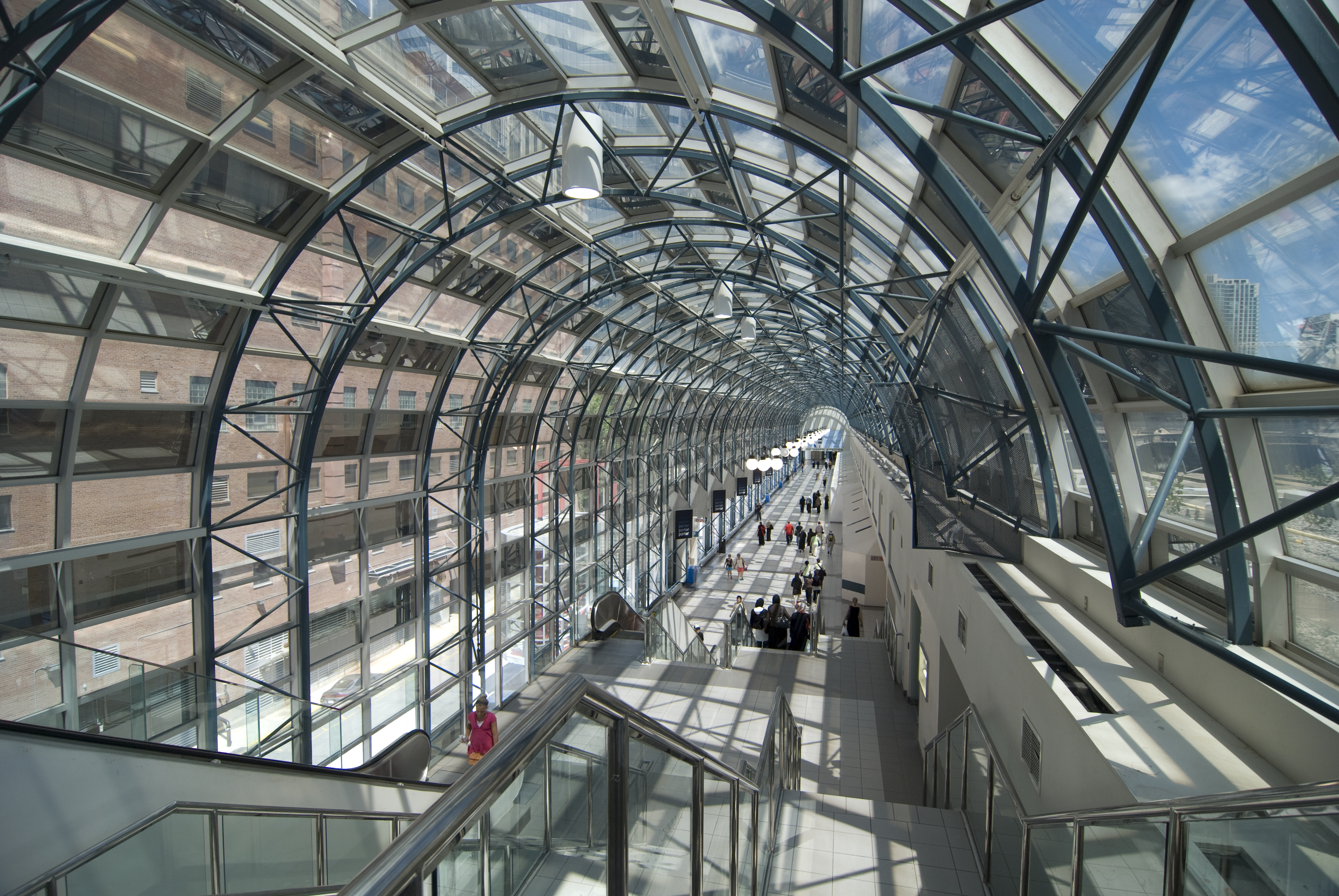 Skyway from Union Station to the Skydome.